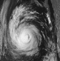 NOAA's CLASS archive, NOAA-7 polar orbiter satellite image taken between 1982-09-22 22:19:55.977-22:27:03.330 UTC on an ascending pass, NESDIS at this location